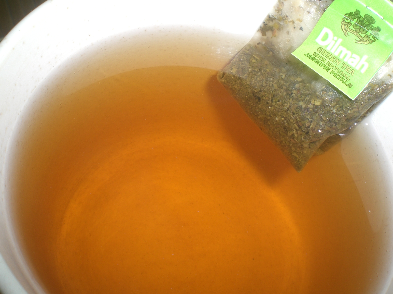 Dilmah - photo by me on today.